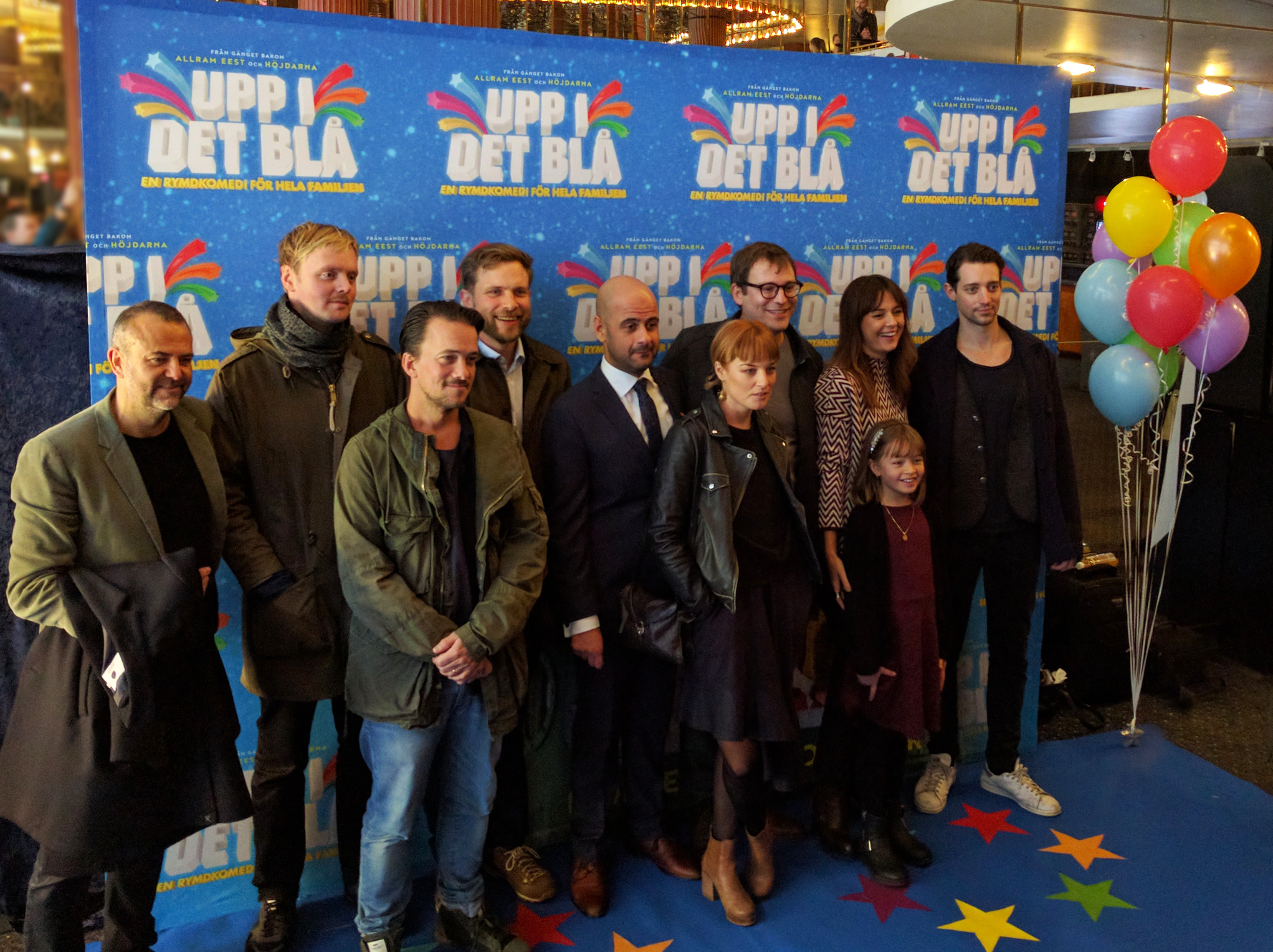 Photo from the premiere of the Swedish film "Upp i det blå".